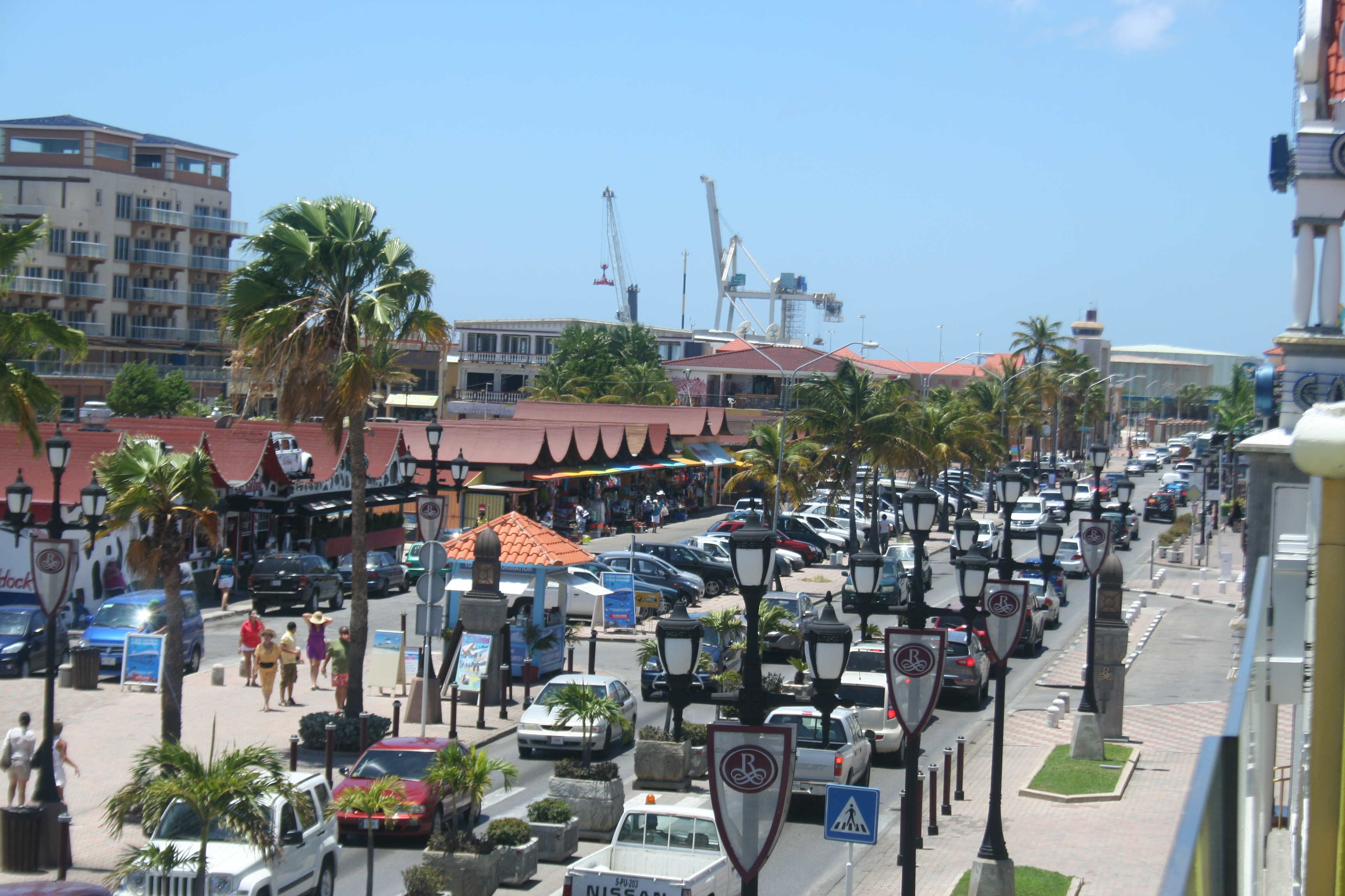 rush hour Aruba